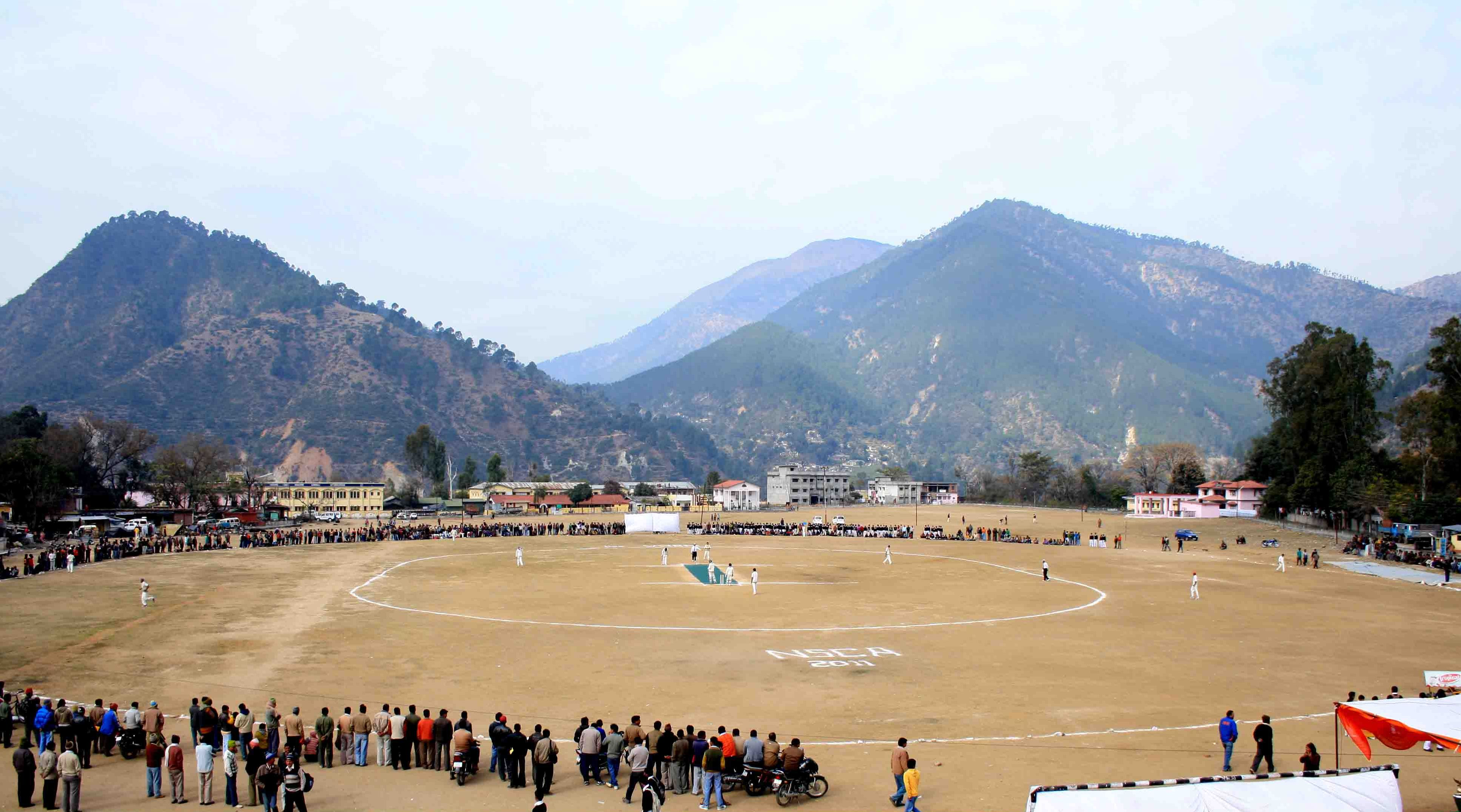 It is Very important Field Memorize for Fairs ( Gauchar Mela ) and Sports like Cricket Tournament and Football Tournament. Gauchar first attained recognition in the 1920s when Lady Willingdon, wife of the then Viceroy of India landed here by air. Then, in 1938, Pandit Jawaharlal Nehru along with his sister Vijaya Lakshmi Pandit also came here by air on the way to a personal visit to Badrinath. At that time cow dung was burnt on the field to gauge the direction of air currents!